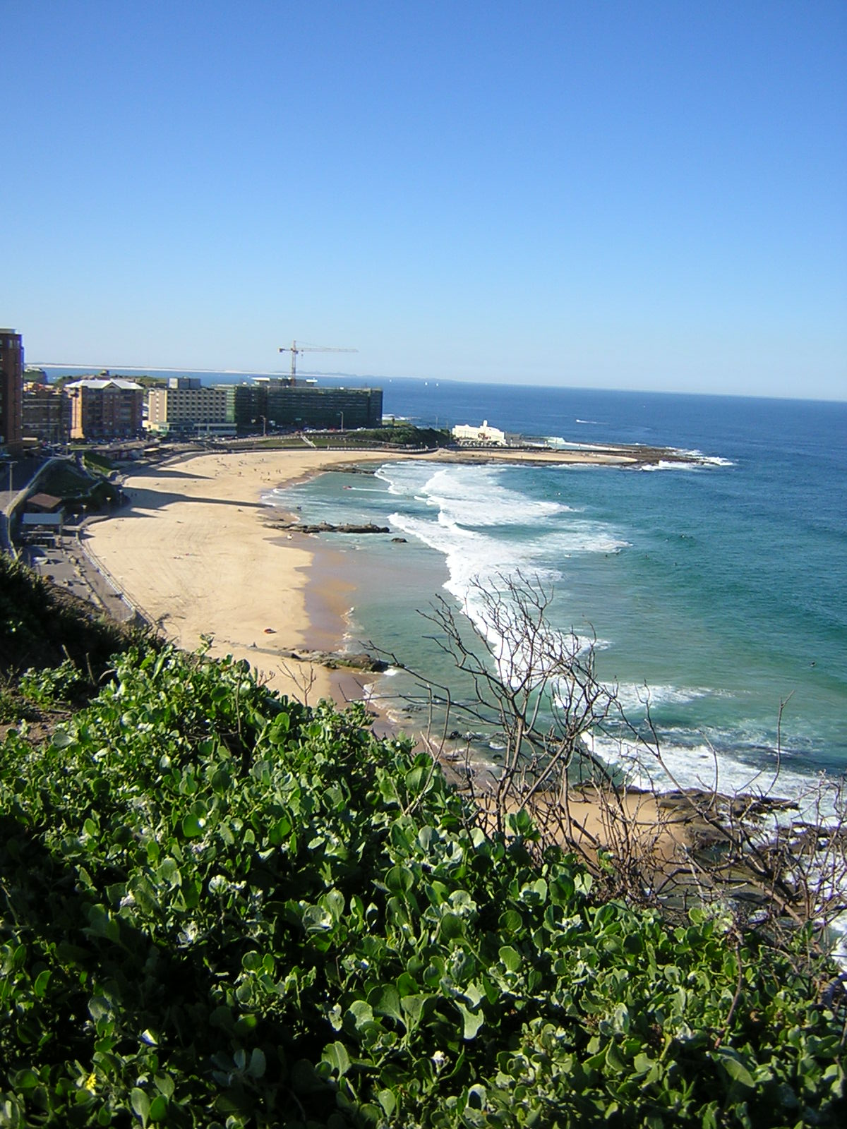 This is a photo looking towards the baths, from the Bogey Hole.